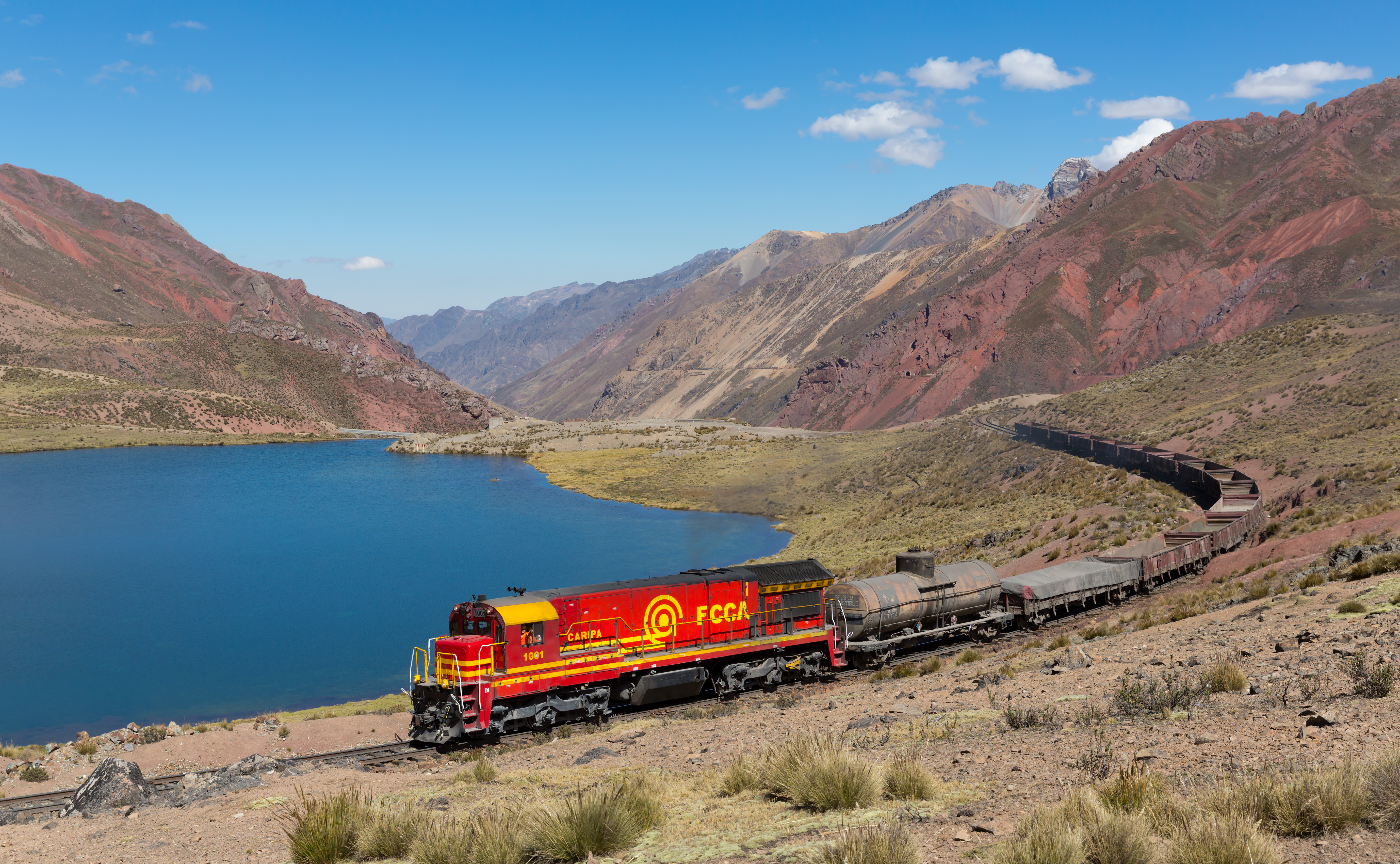 FCCA (Ferrocarril Central Andino) nr. 1001, a GE C30-7, has nearly reached the summit on its way from Lima to La Oroya. Pictured at about 4710 m a.s.l. (it's the world's second highest railway line), between Chinchan and Ticlio, Peru.